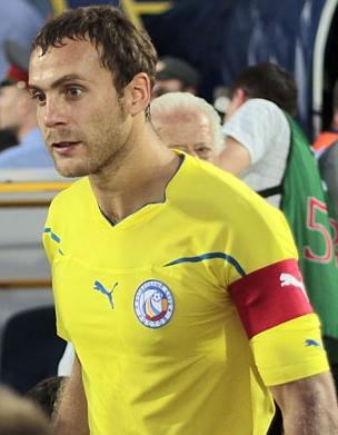 Roman Adamov with FC Rostov.